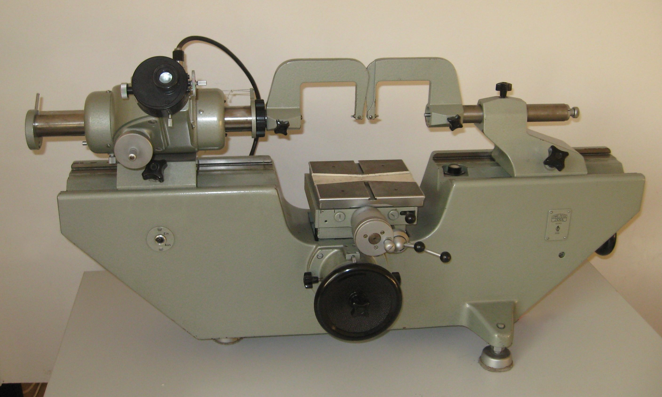 Abbe horizontal measuring instrument